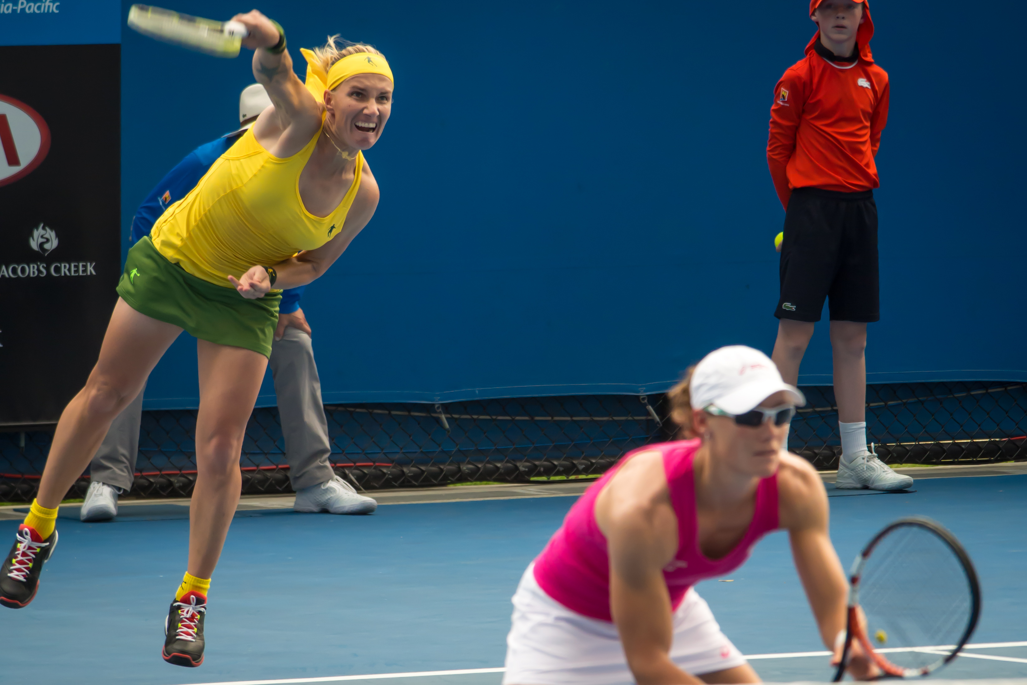 Svetlana Kuznetsova (RUS) and Samantha Stosur (AUS) during their 1st round doubles straight-sets win to Irina Buryachok (UKR) and Oksana Kalashnikova (GEO) at the 2014 Australian Open on Court 7.